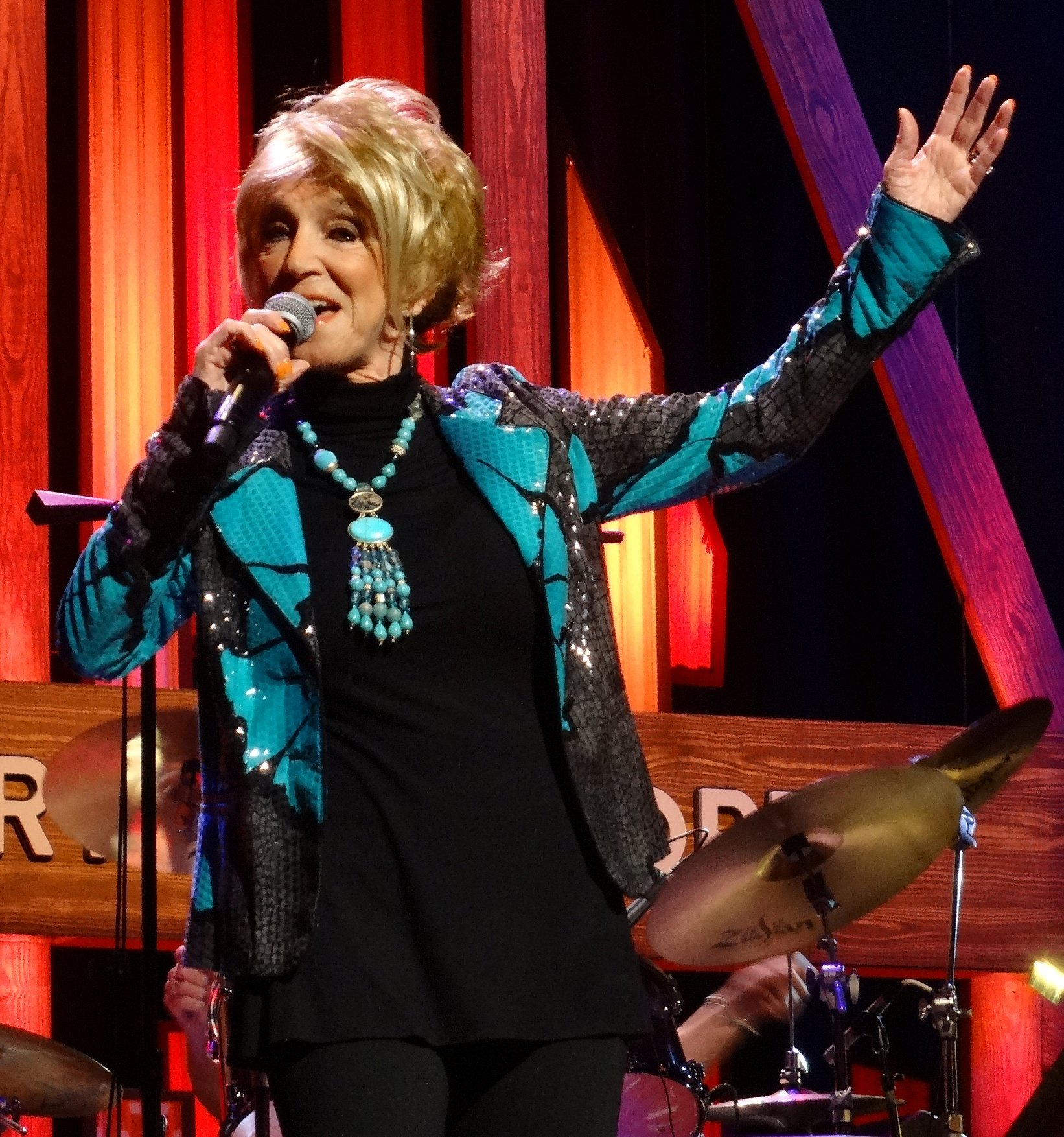 Jeannie Seely in performance at the Grand Ole Opry, 2010s